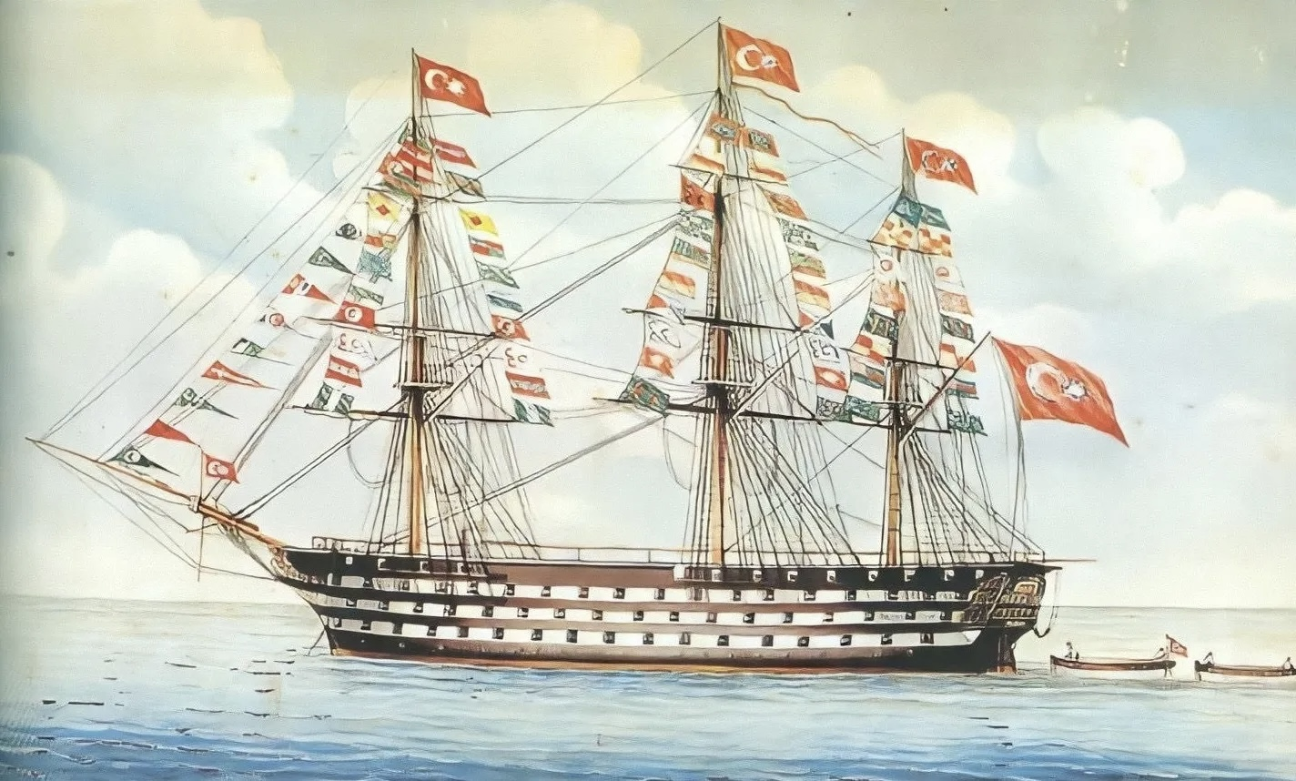 Mahmudiye (1829), ordered by the Ottoman Sultan Mahmud II and built by the Imperial Naval Arsenal on the Golden Horn in Istanbul, was for many years the largest warship in the world. The 201 x 56 kadem (1 kadem = 37.887 cm) or 76.15 m × 21.22 m (249.8 ft × 69.6 ft) (kadem, which translates as "foot", is often misinterpreted as equivalent in length to one imperial foot, hence the wrongly converted dimensions of "201 x 56 ft, or 62 x 17 m" in some sources) ship-of-the-line was armed with 128 cannons on 3 decks and carried 1,280 sailors on board. She participated in many important naval battles, including the Siege of Sevastopol (1854-1855) during the Crimean War (1854-1856). She was decommissioned in 1874.